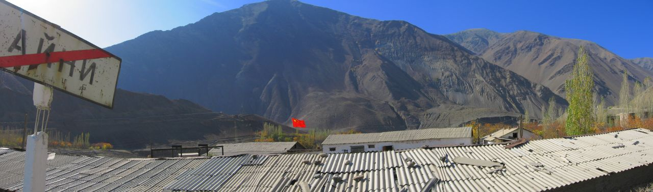 Mountains near Ayni